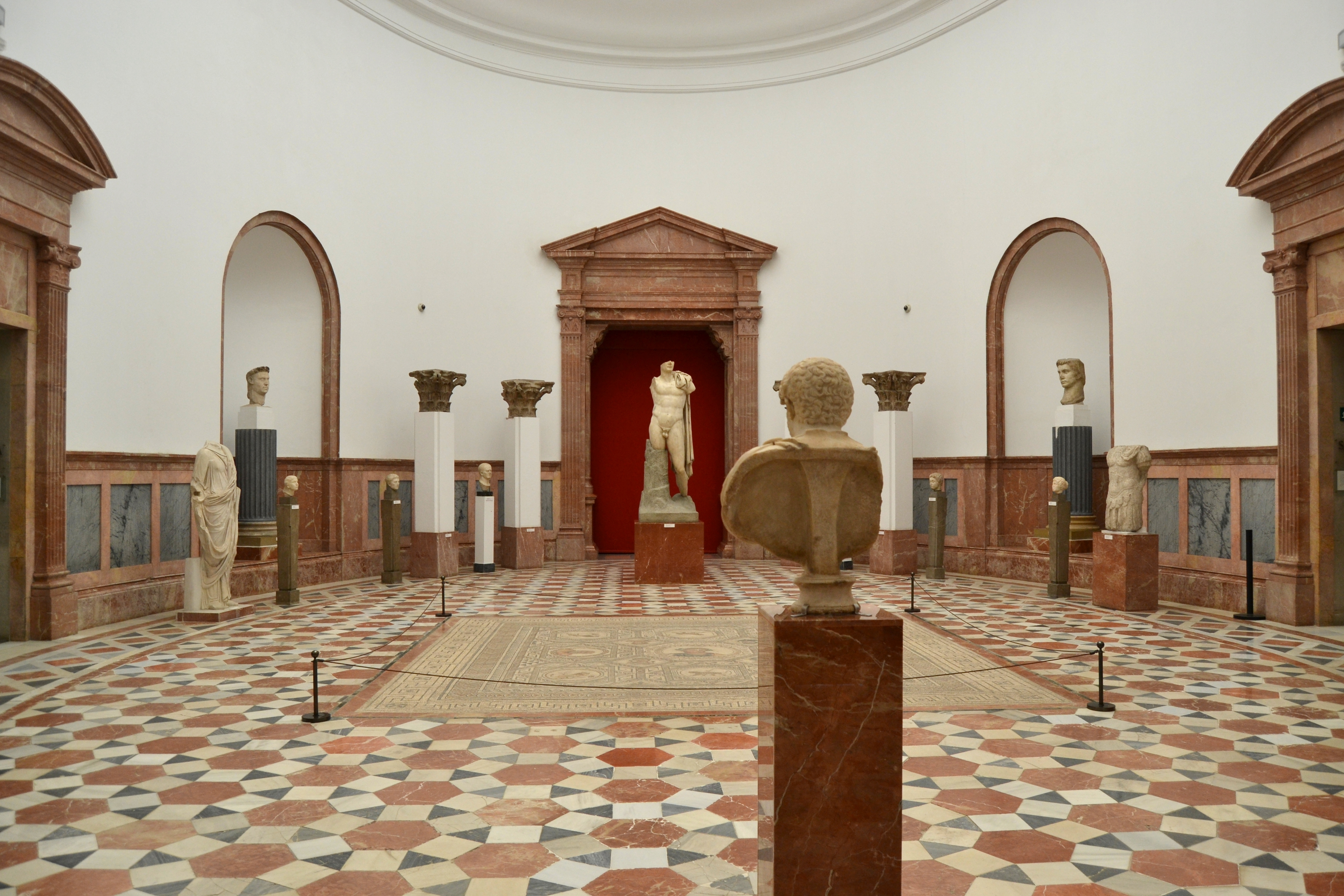 Interior of Archaeological Museum of Sevilla, Spain